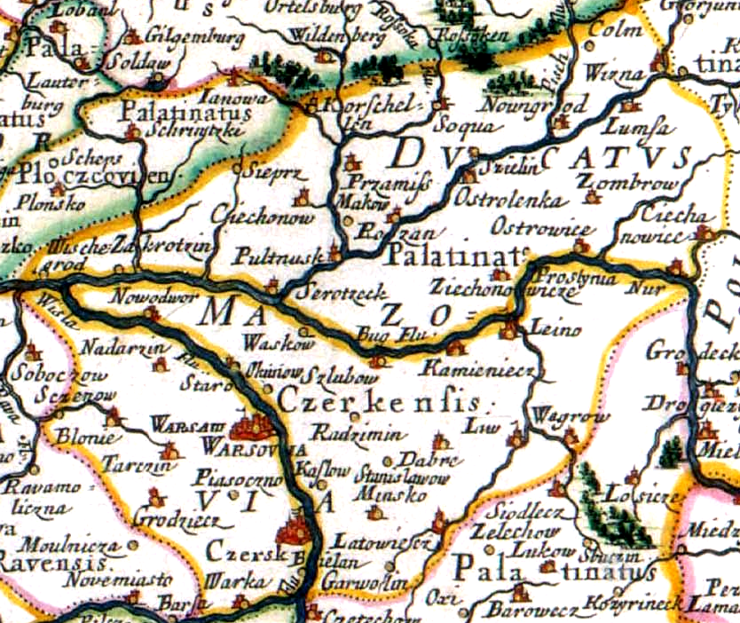 Mazovian Voievodship in XVII century